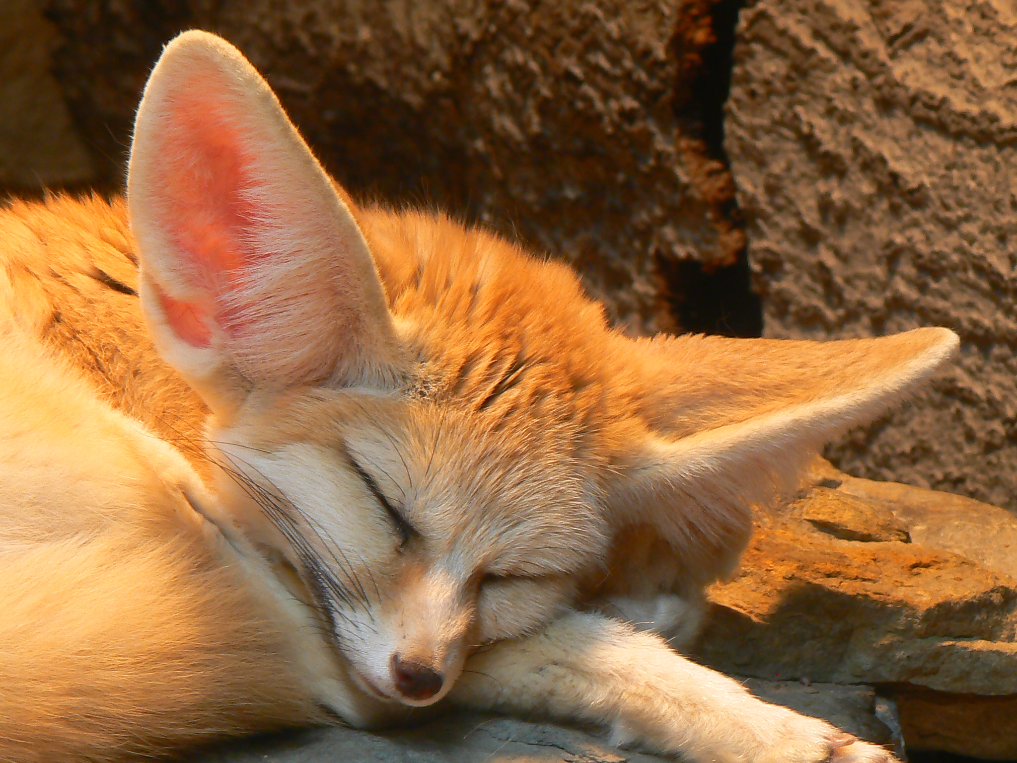 Fennec Fox (Vulpes zerda) at Wilhelma Zoo, Stuttgart, Germany.